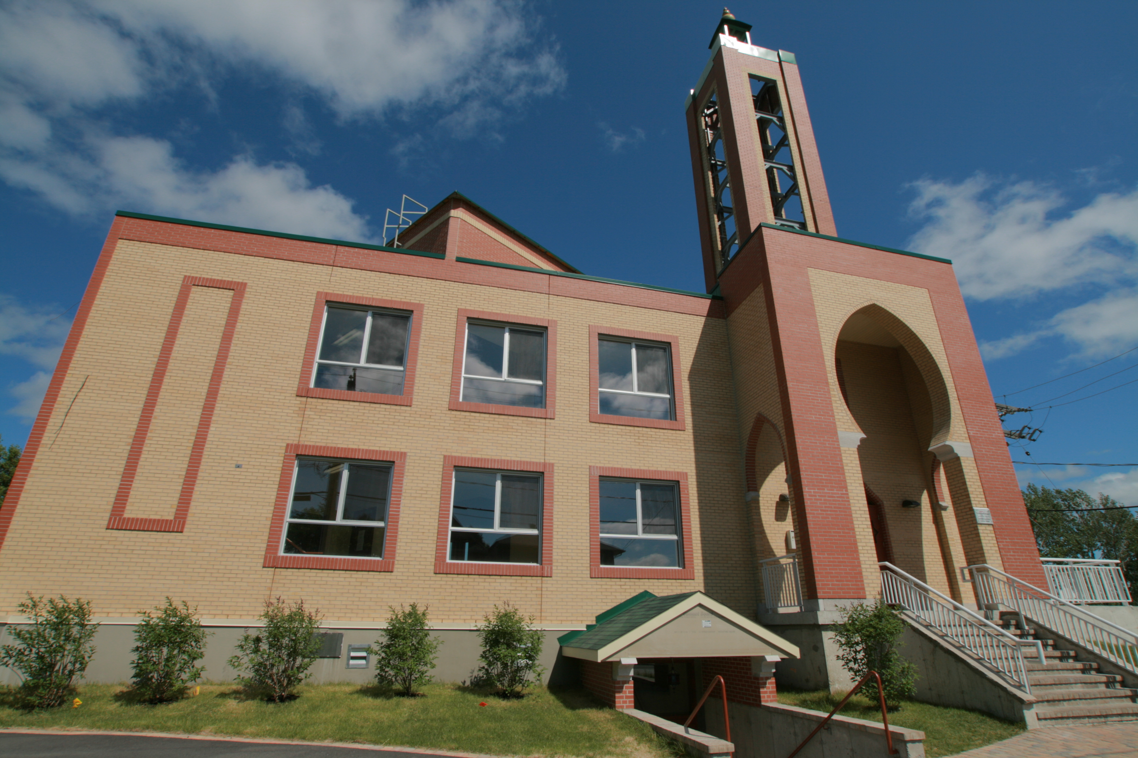 The Outaouais Islamic Centre also known as Gatineau Mosque in Hull, Quebec.